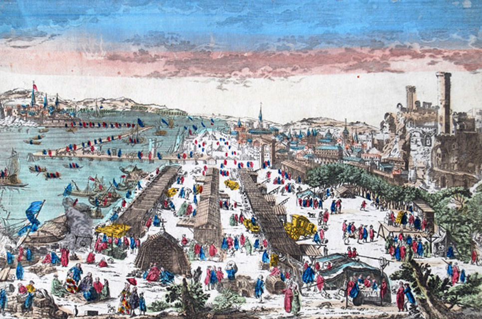 André Basset, Fair of Beaucaire